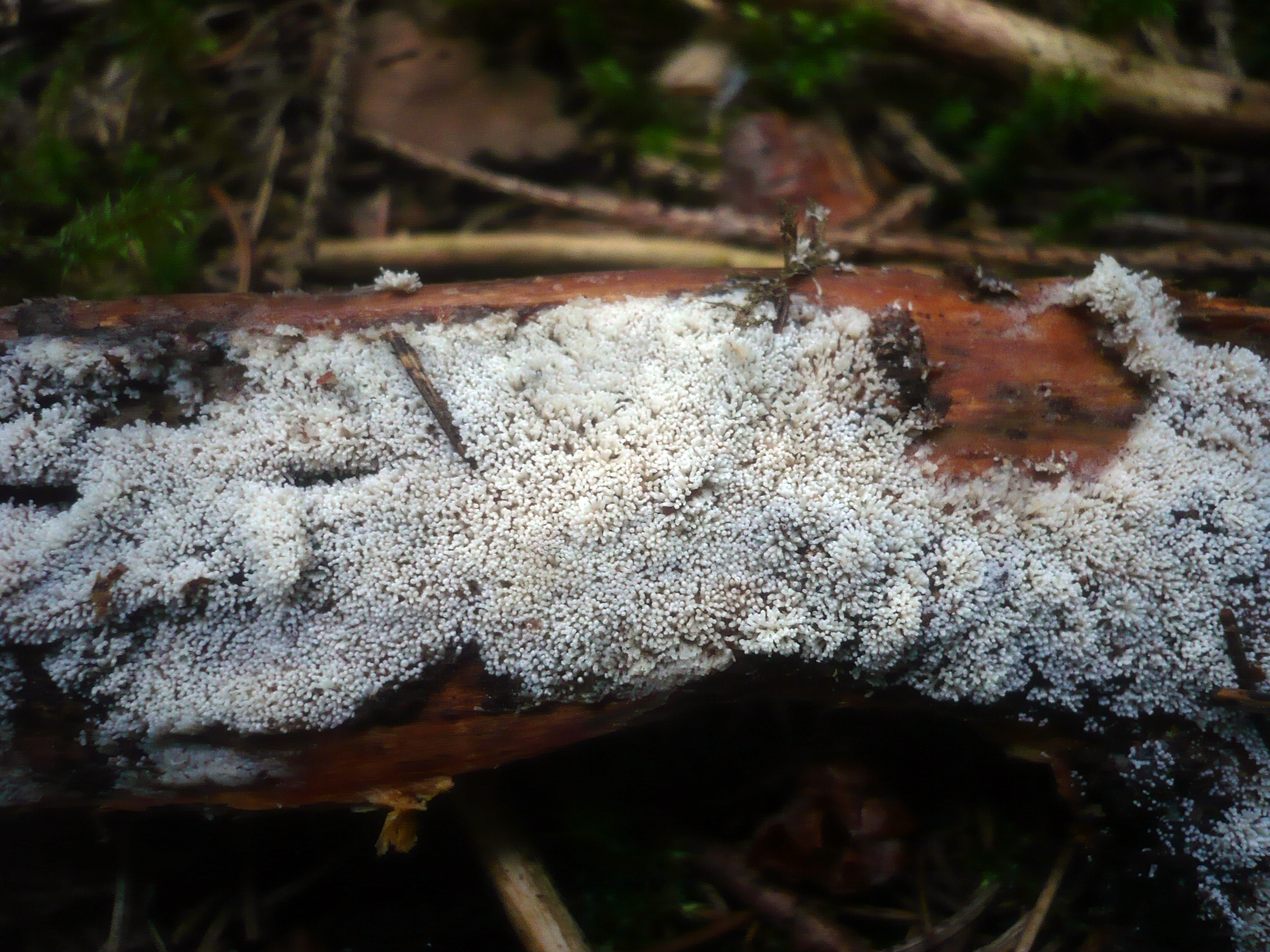 The cyphelloid fungus Rectipilus fasciculatus (Pers.) Agerer. Photographed in Grange de la Penne, Moirans en Montagne, Jura, France.